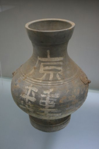 A Chinese pottery storage jar made during the reign of Wang Mang (9–23 AD) and his short-lived Xin Dynasty.